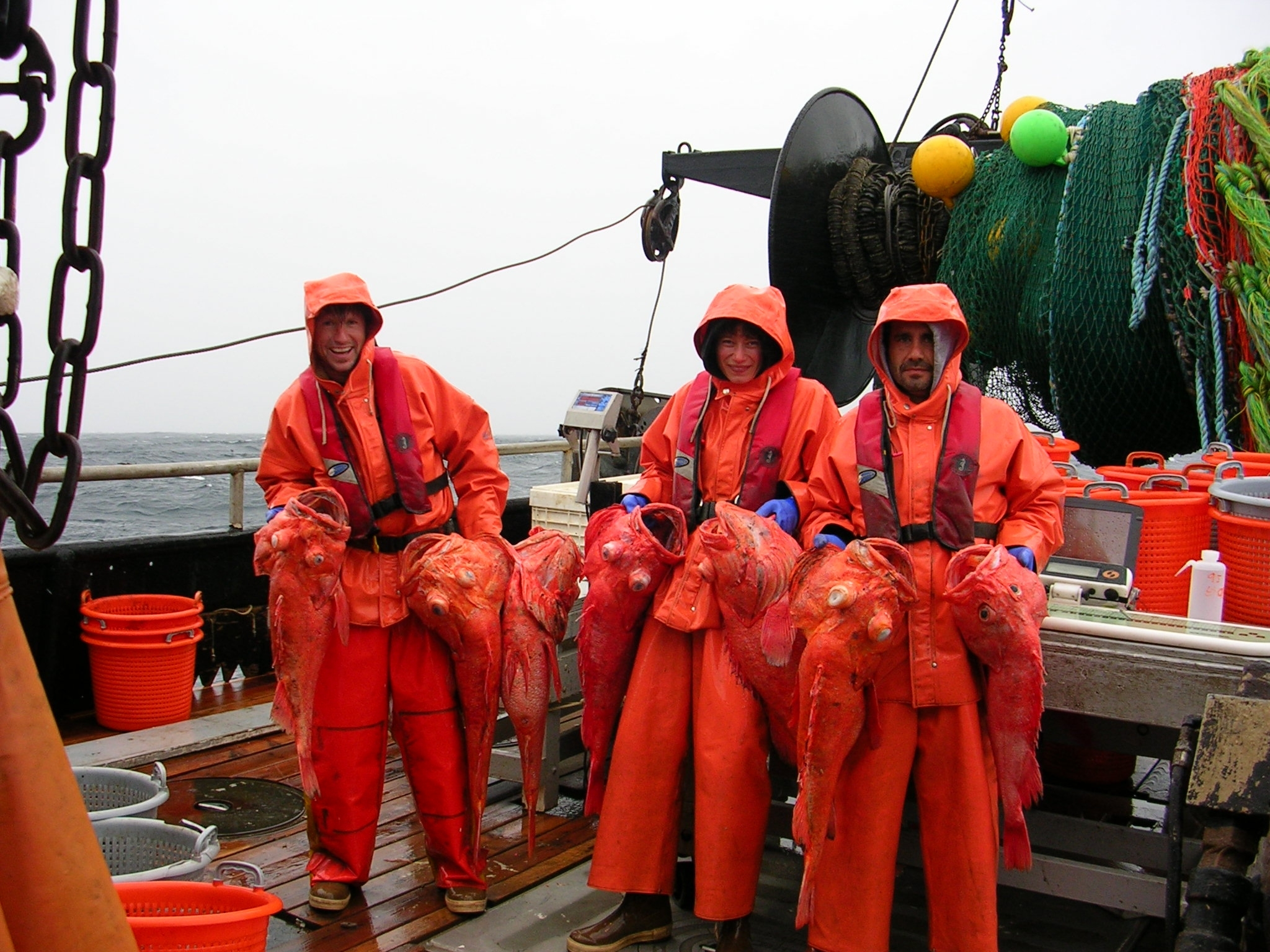 NOAA Fisheries employees Victor Simon (left), Keri York (center) and Jim Miller (right) hold a several shortraker rockfish (Sebastes borealis) caught aboard the chartered fishing vessel Ms. Julie during the 2005 west coast groundfish survey. Pacific Ocean, West Coast